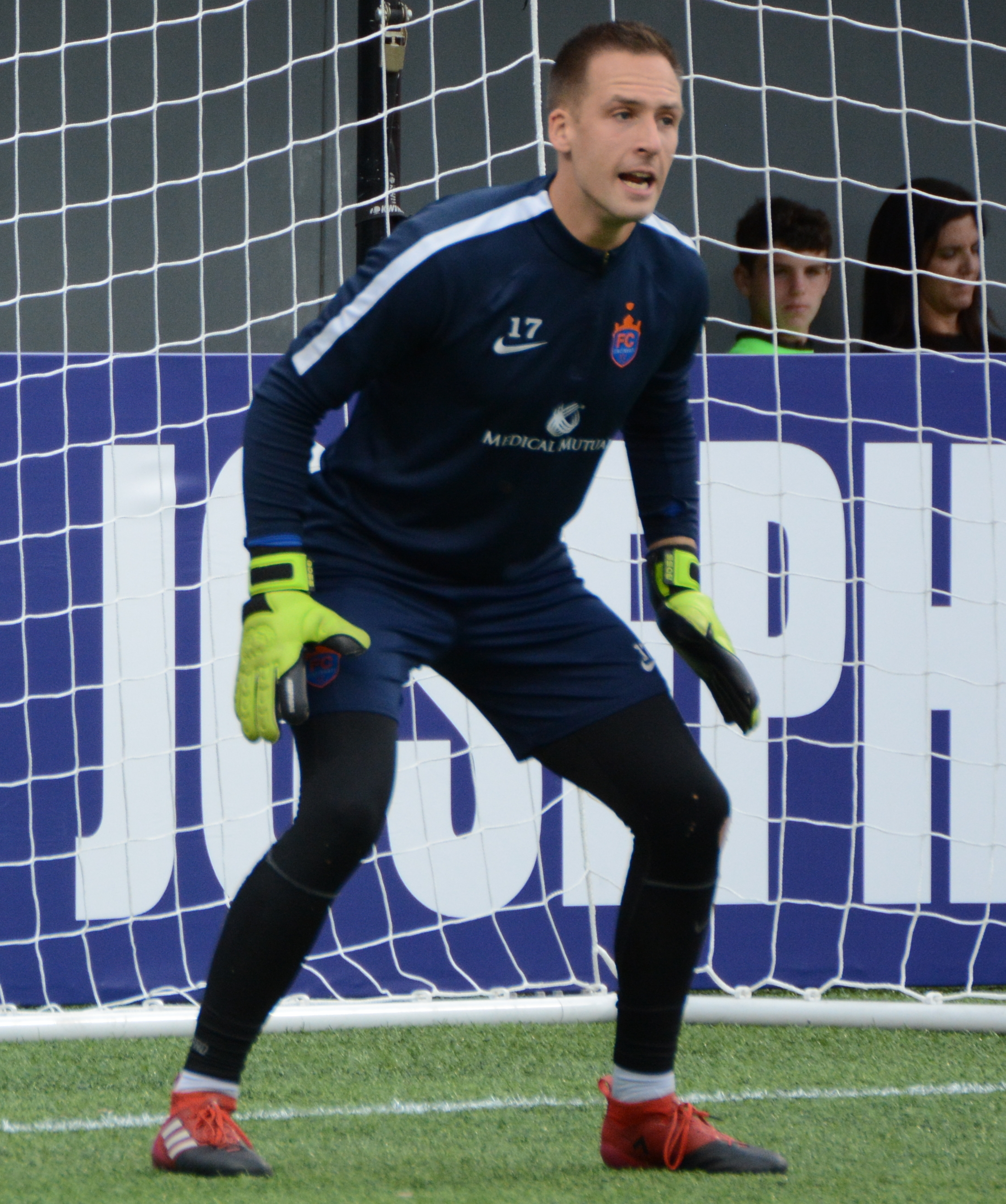 Taken during a USL regular season match between FC Cincinnati and Pittsburgh Riverhounds at Nippert Stadium in Cincinnati, USA on April 21, 2018.